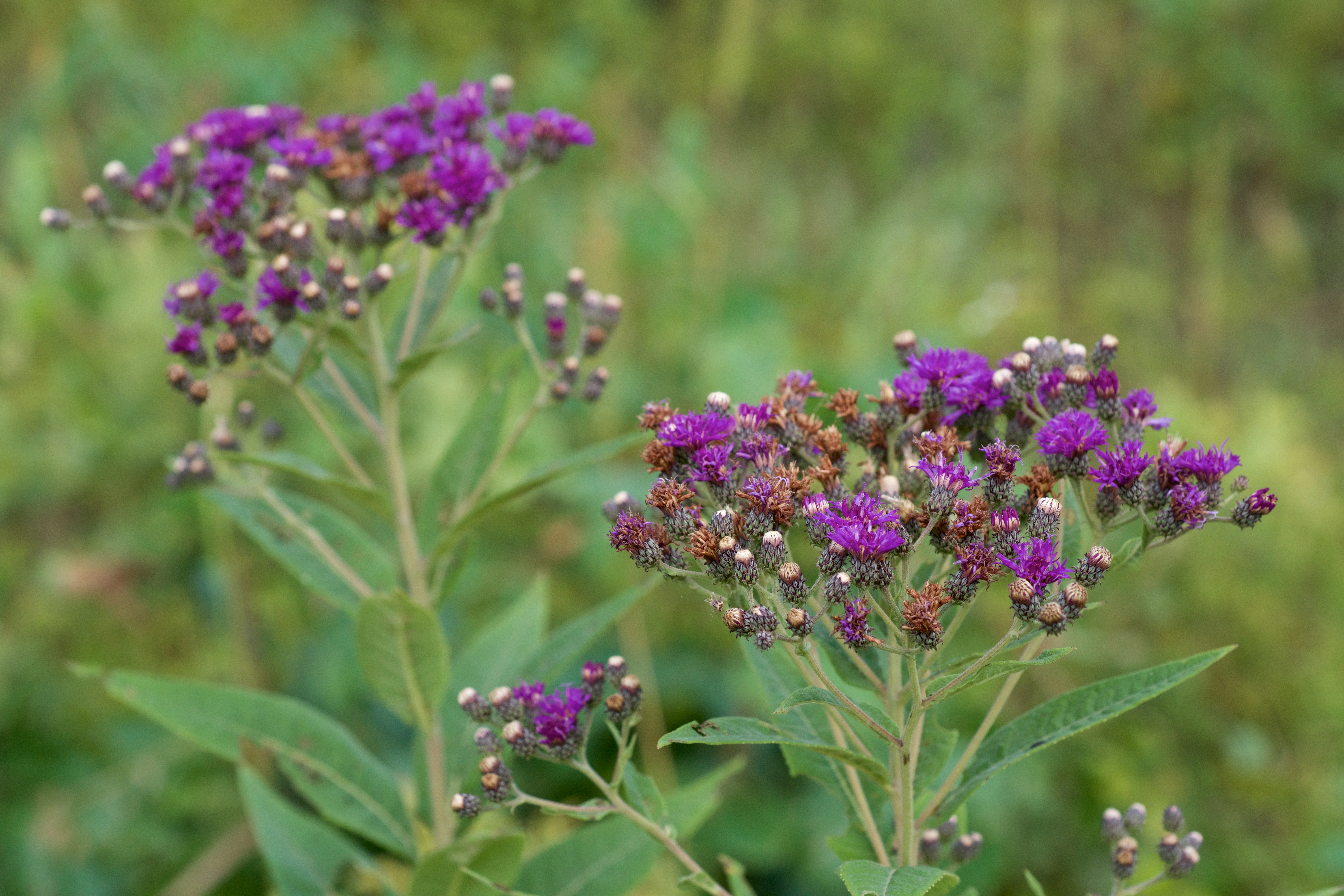 Species from central North America Common name: Baldwin's ironweed Photographed along the Camp Robinson Special Use Area Woodlands Auto Tour, Faulkner County, Arkansas